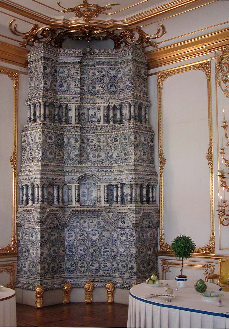 Pushkin (Russia), Kavaler dining room of the Catherine Palace